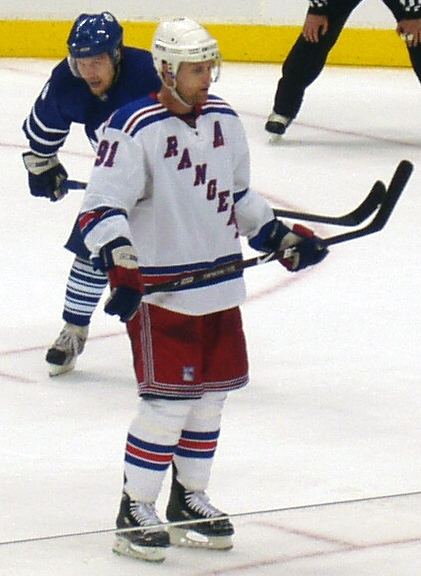 Markus Naslund playing against the Toronto Maple Leafs in Toronto.